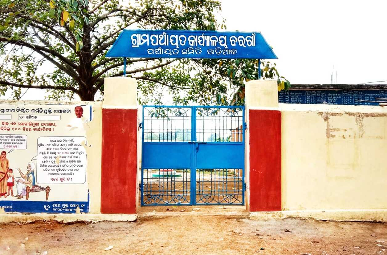 BARGAON GP was established in the year 1952. The village was a panchayat according to the 1952 stats.